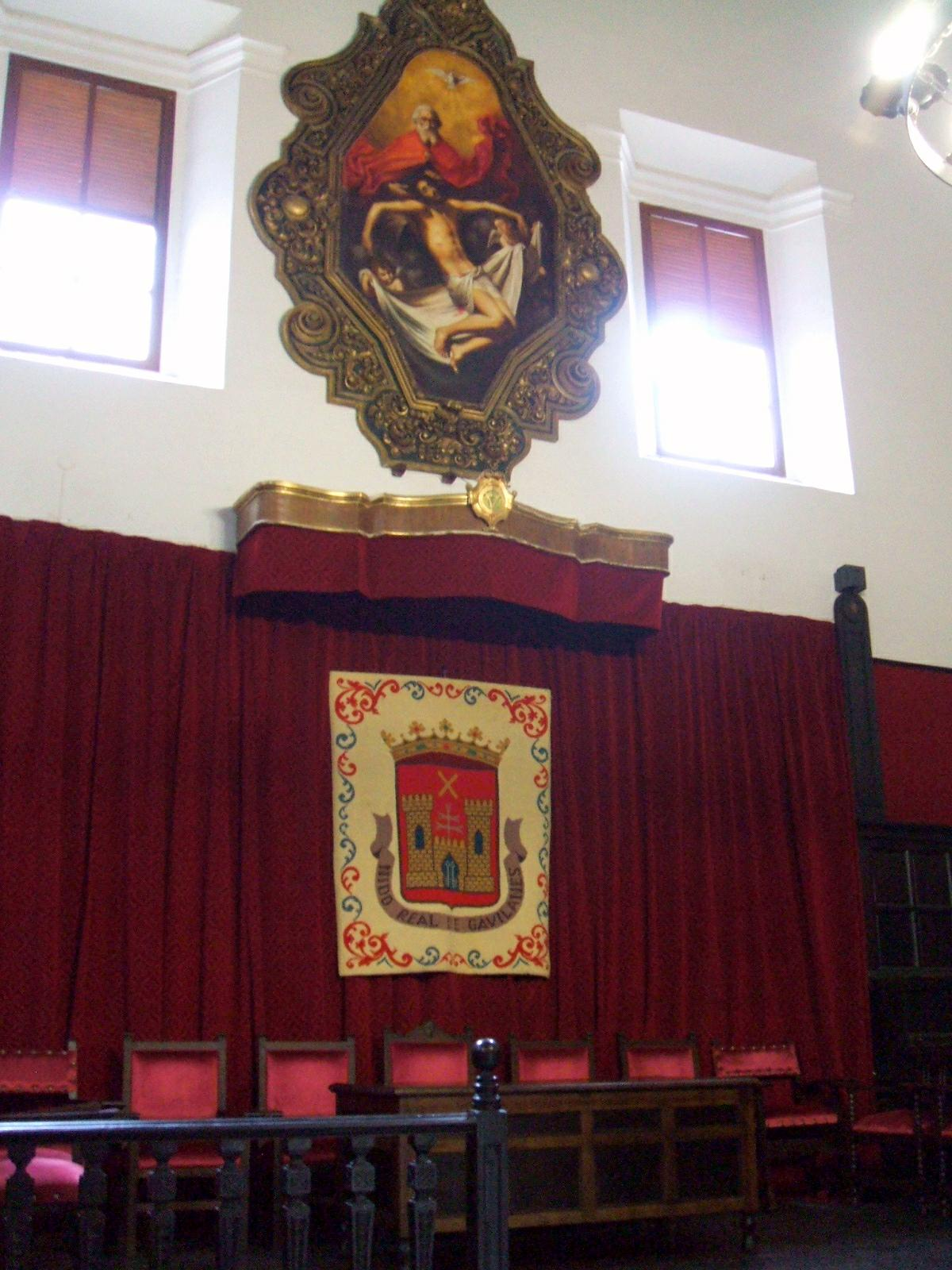 Paraninfo de la Antigua Universidad de Baeza (Jaén, Andalucía, España)